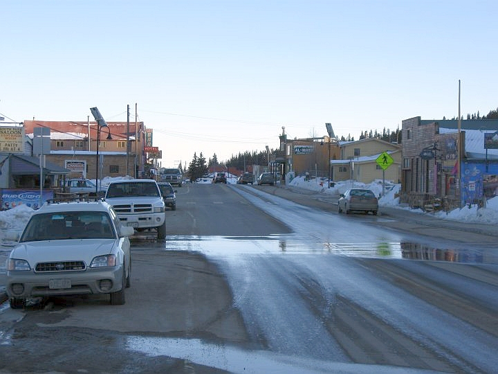 Main street, Alma, Colorado, in the late afternoon sunlight.